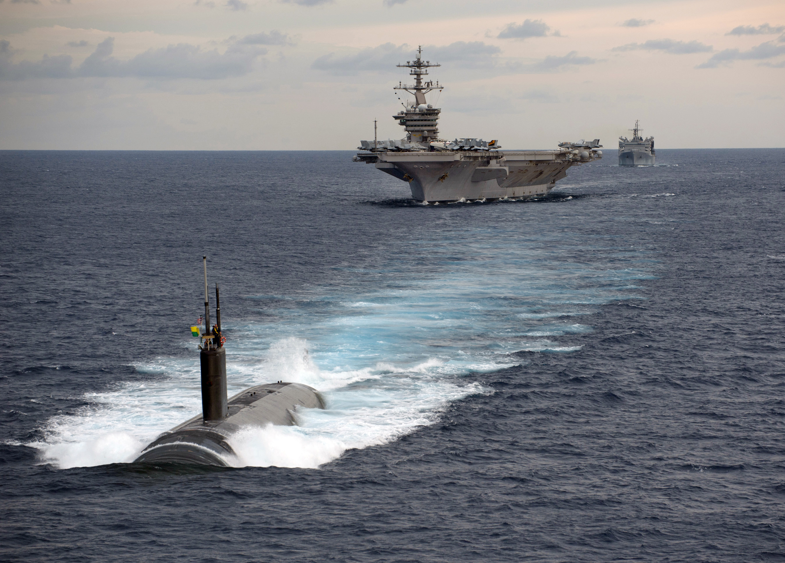 BAY OF BENGAL (April 14, 2012) The Nimitz-class aircraft carrier USS Carl Vinson (CVN 70), the Ticonderoga-class guided-missile cruiser USS Bunker Hill (CG 52), and the Arleigh Burke-class guided-missile destroyer USS Halsey (DDG 97) transit in formation with Indian navy ships during Exercise Malabar 2012. Carl Vinson, Bunker Hill, and Halsey are part of Carrier Strike Group (CSG) 1, and are participating in the annual bi-lateral naval field training exercise with the Indian navy to advance multinational maritime relationships and mutual security issues. (U.S. Navy photo by Mass Communication Specialist 2nd Class James R. Evans/Released) 120414-N-DR144-208 Join the conversation navylive.dodlive.mil